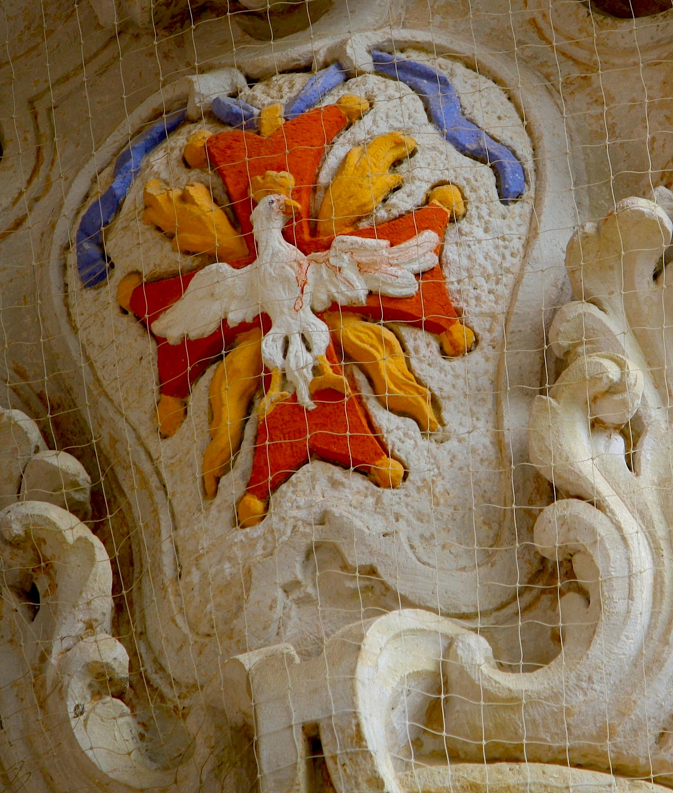 Pillnitz Castle, an architectural detail depicting the Polish Order of the White Eagle